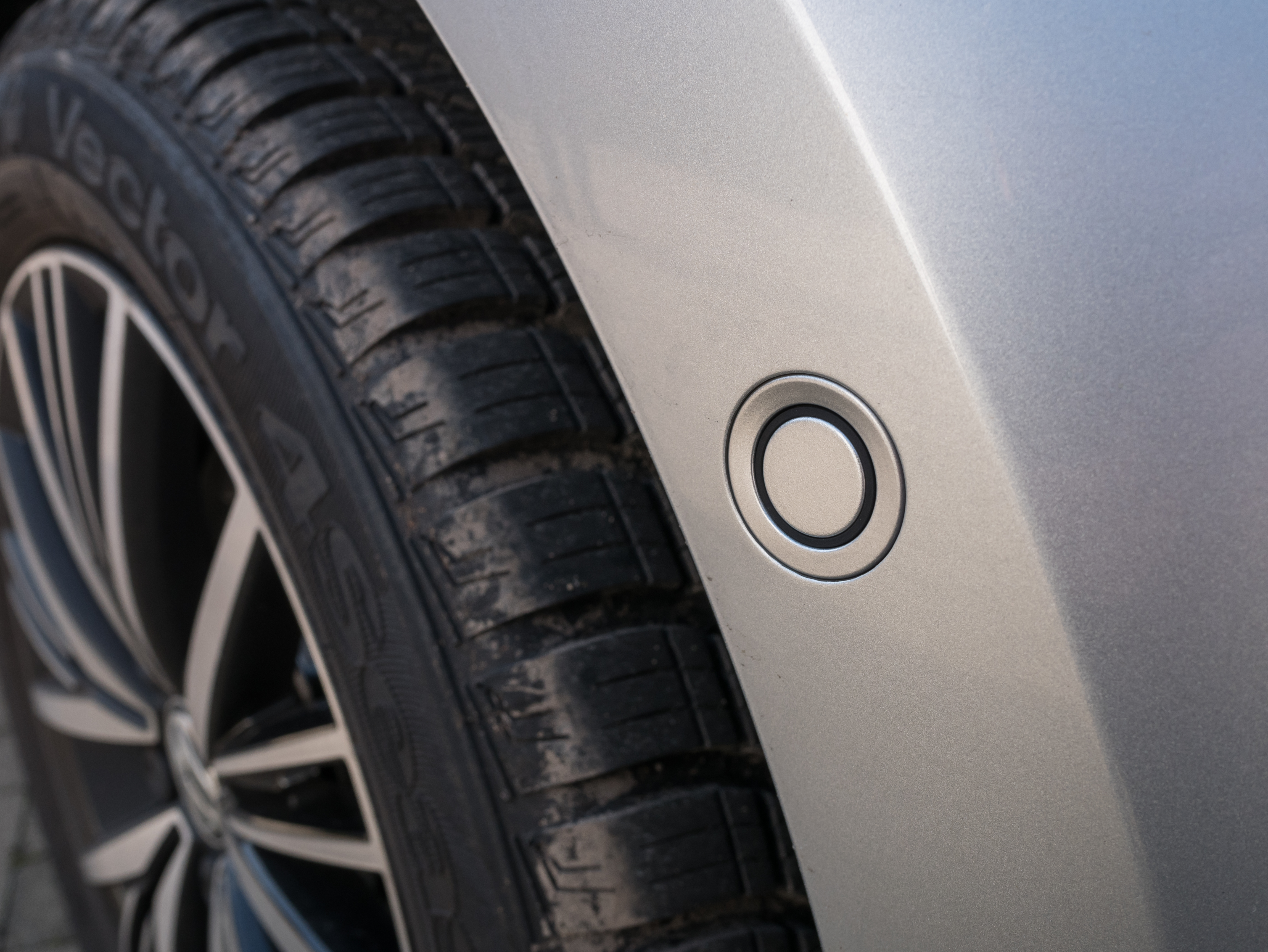 Side parking sensor on a VW Golf VII